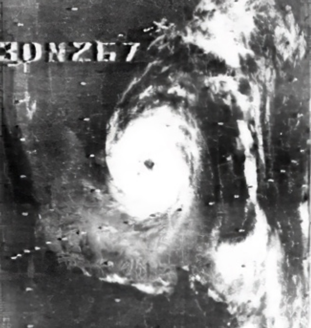 Nimbus 2 HRIR film strip (orbit 1956) on October 9, 1966 near 0600 GMT over Hurricane Inez.